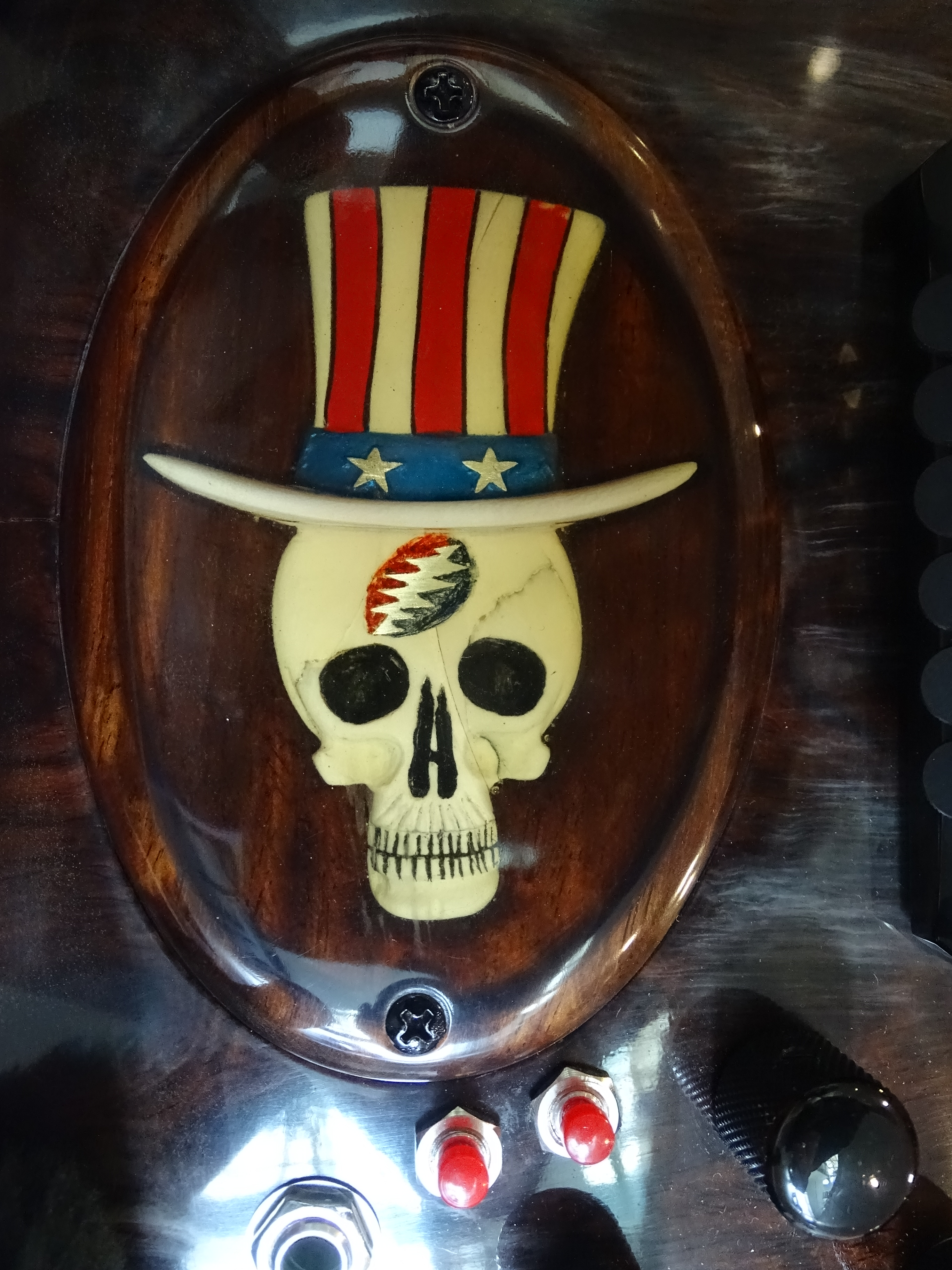 Detail of Jerry Garcia Top Hat Guitar - Rock & Roll Hall of Fame and Museum - Cleveland - Ohio - USA